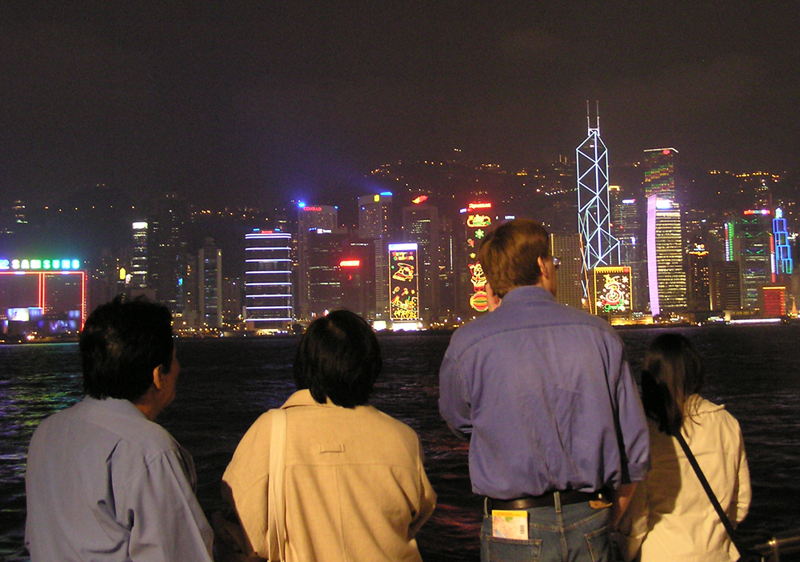 Summary Several tourists looking at the night view of the Victoria Harbour in Tsim Sha Tsui, Hong Kong.